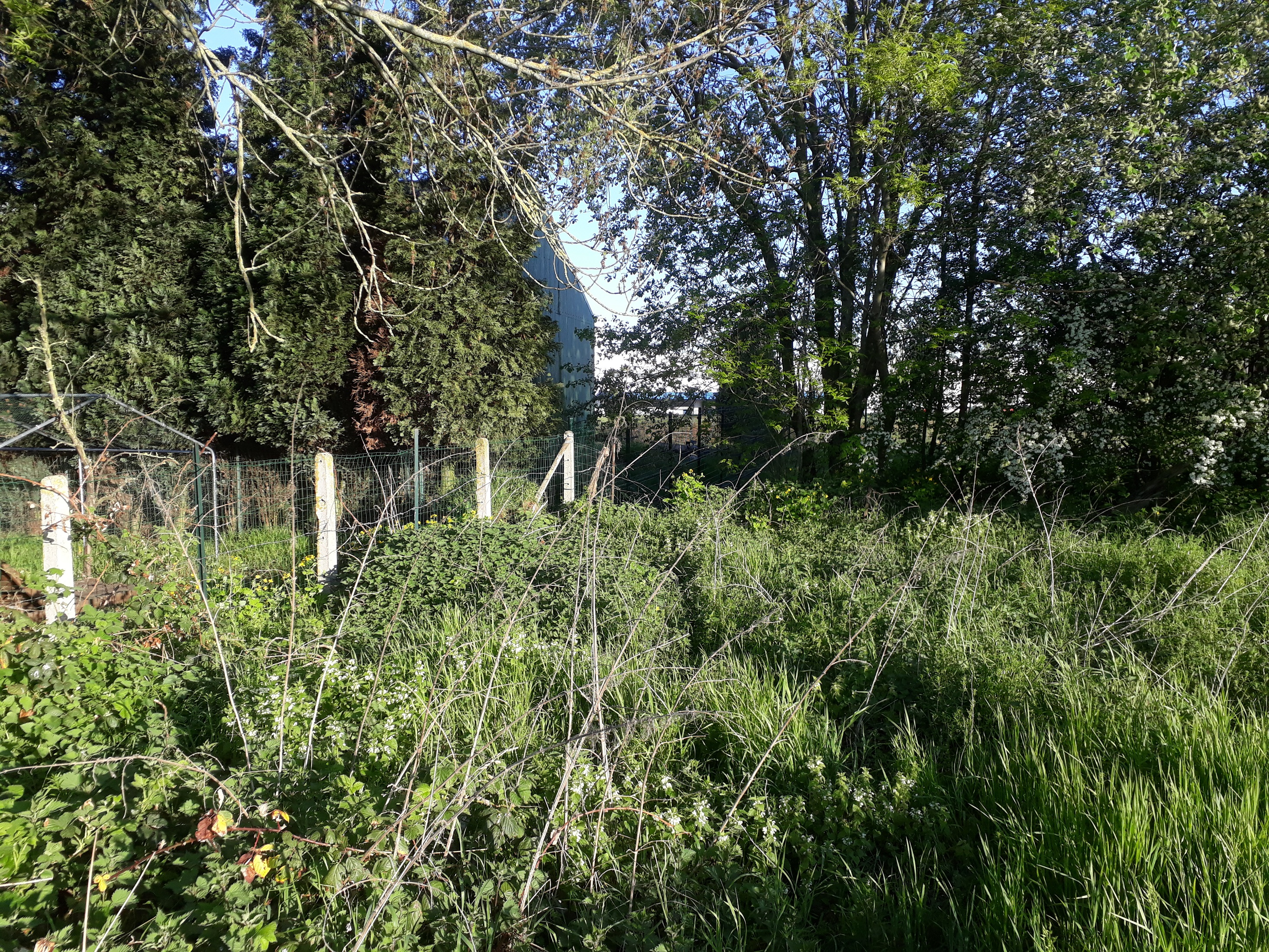 Vottem 48